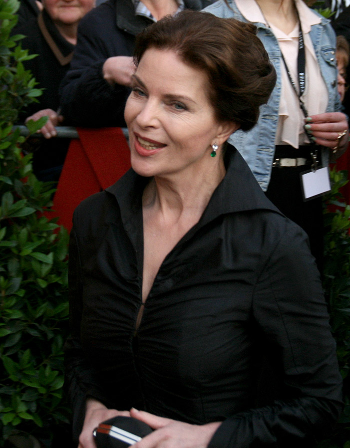 Gudrun Landgrebe at the Romy TV awards (Hofburg Imperial Palace in Vienna)